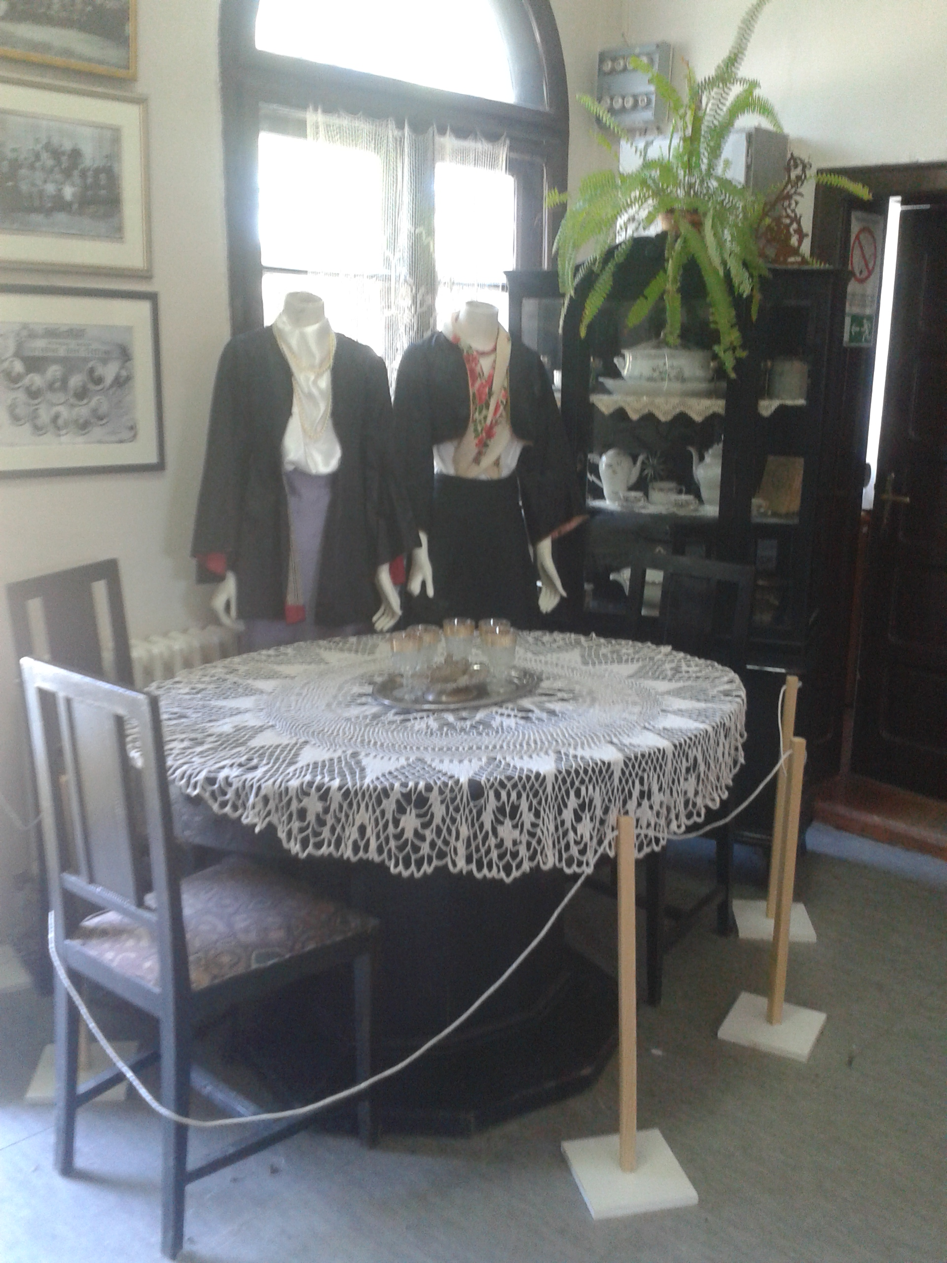 19th-century costumes of Serbia in Homeland Museum of Trstenik